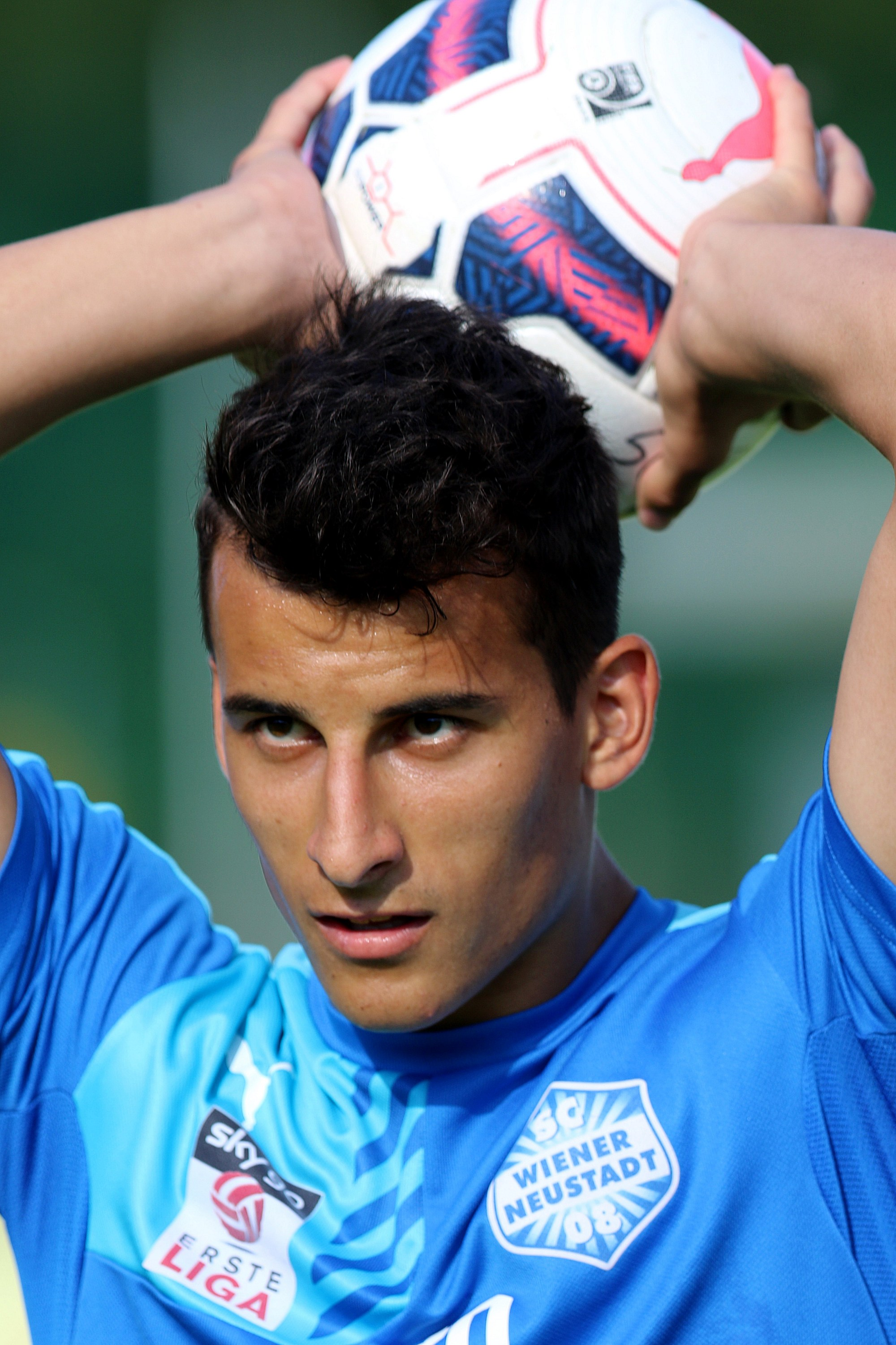 Friendly match SC Mannsdorf (red shirts) vs. SC Wiener Neustadt (blue shirts) 0-2 in Katzelsdorf on 2016-07-01. – The photo shows Manfred Fischer (SC Wiener Neustadt).